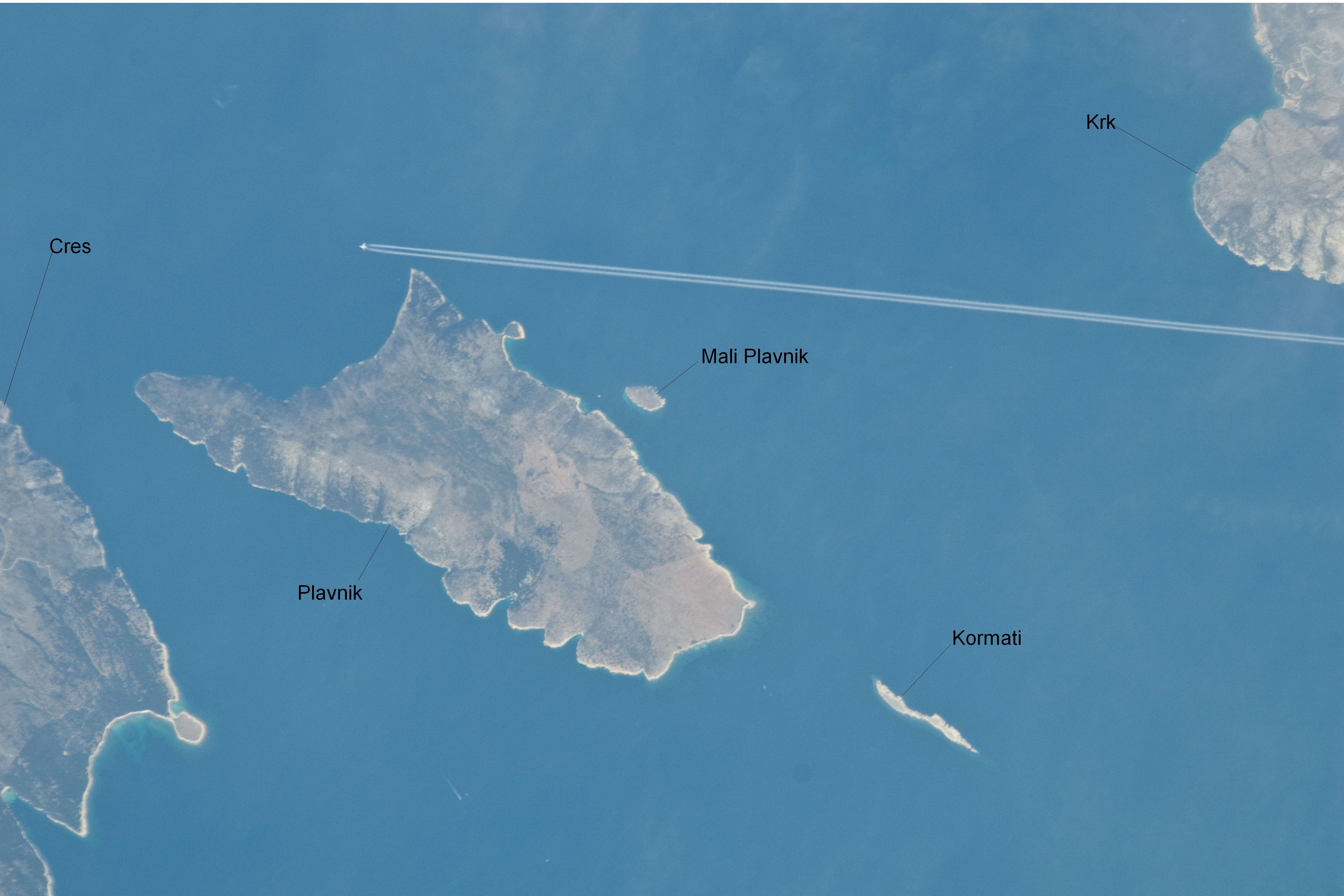 Satellite picture of Plavnik and surrounding islands with indicators